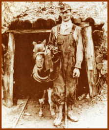 Virginia miner bringing a working Shetland pony out of a mine.